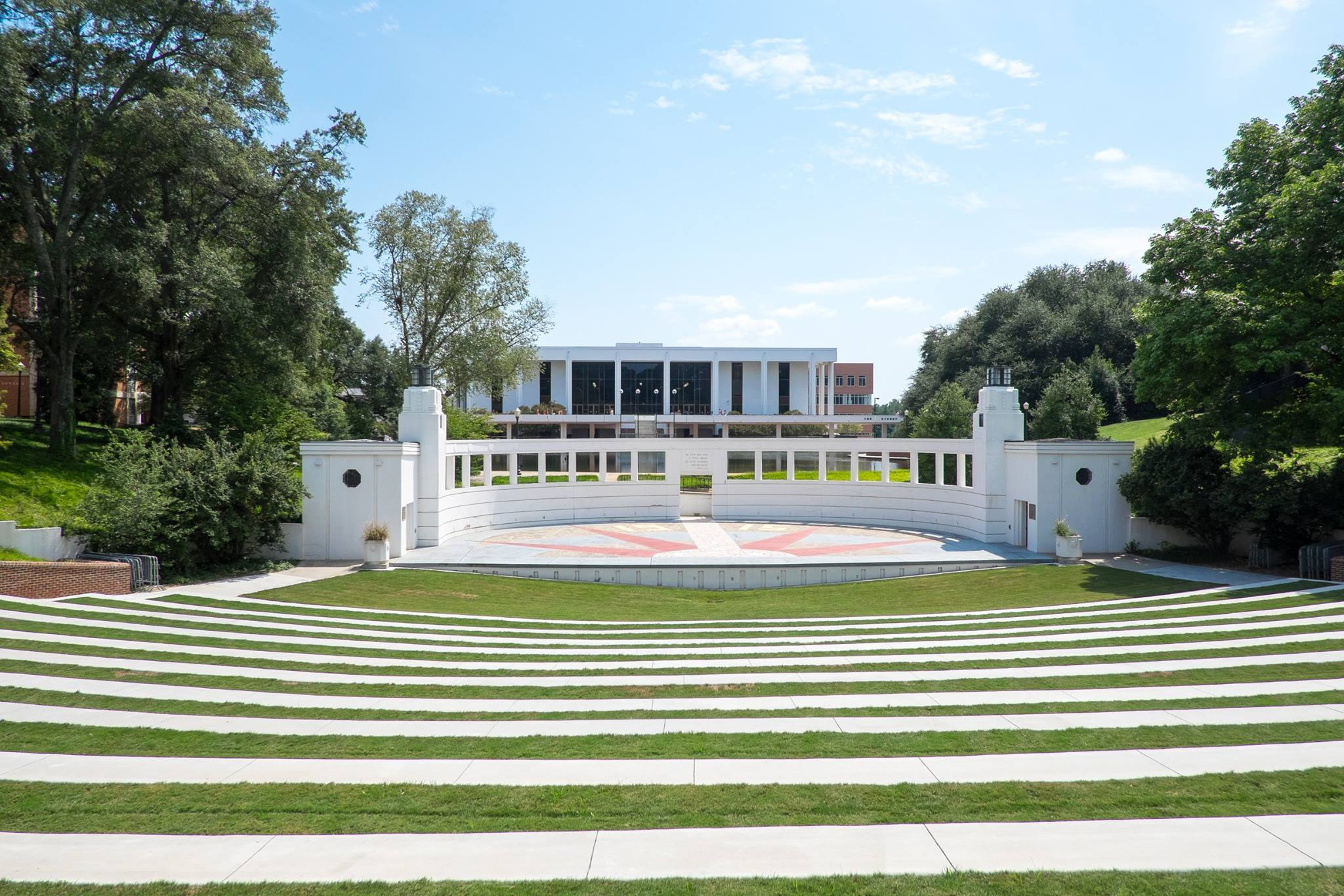 Outdoor Theater and Cooper Library at Clemson University in Clemson, South Carolina